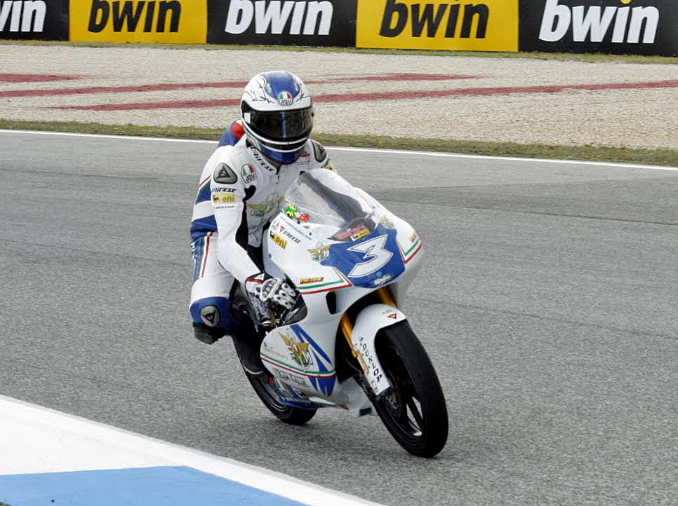 Luigi Morciano 2011 Estoril